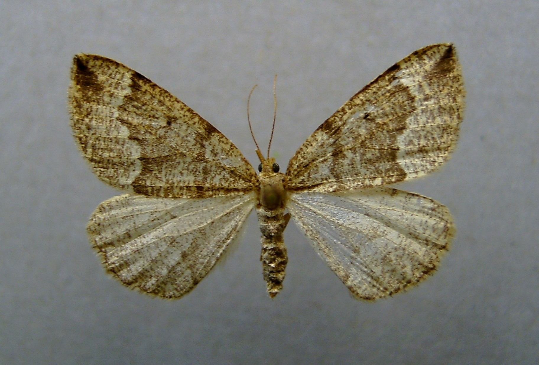 Pungeleria capreolaria, Oberbergen, Kaiserstuhl, Germany